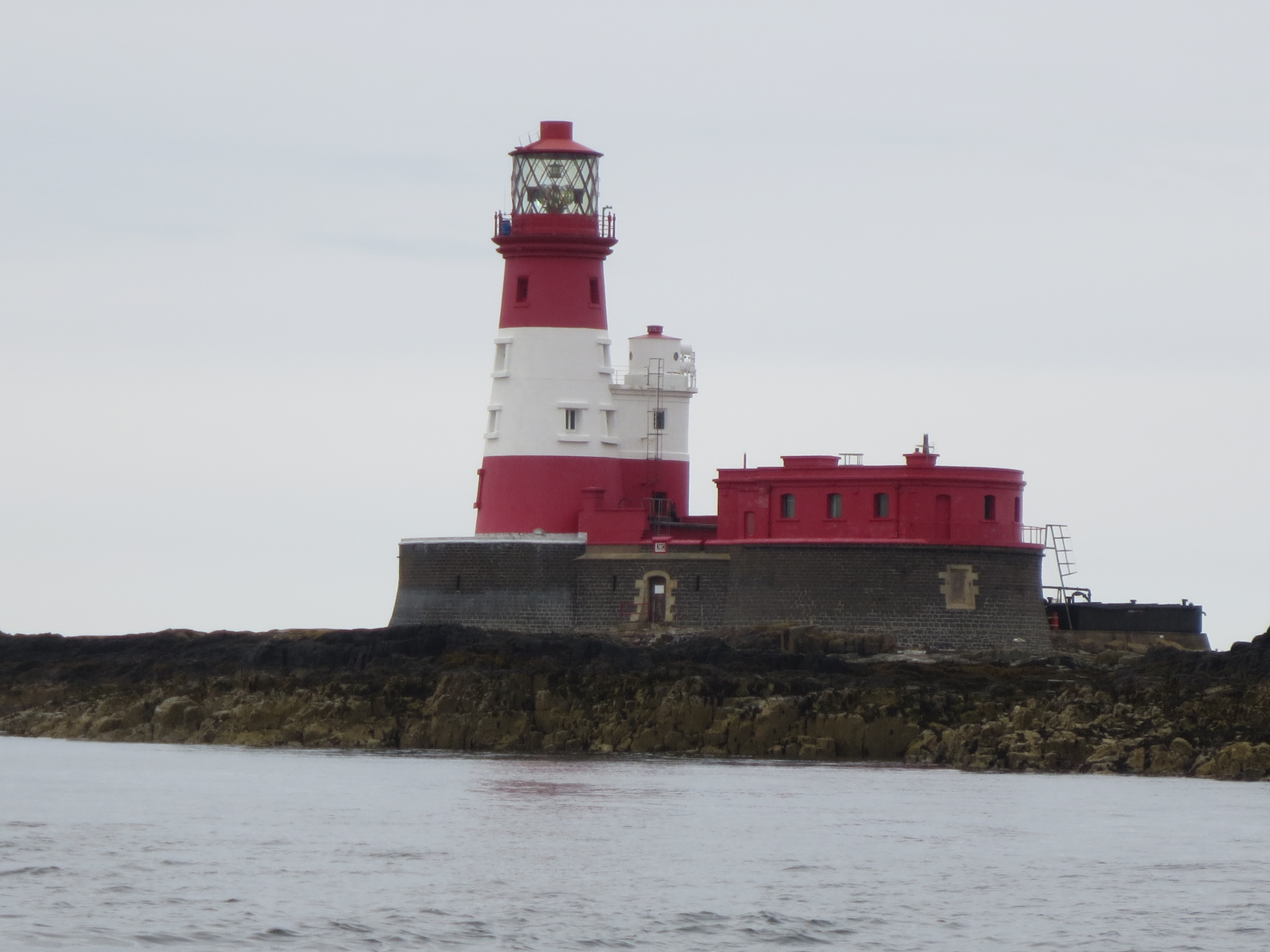 Lighthouse at Long Stone Island (Farne Islands)